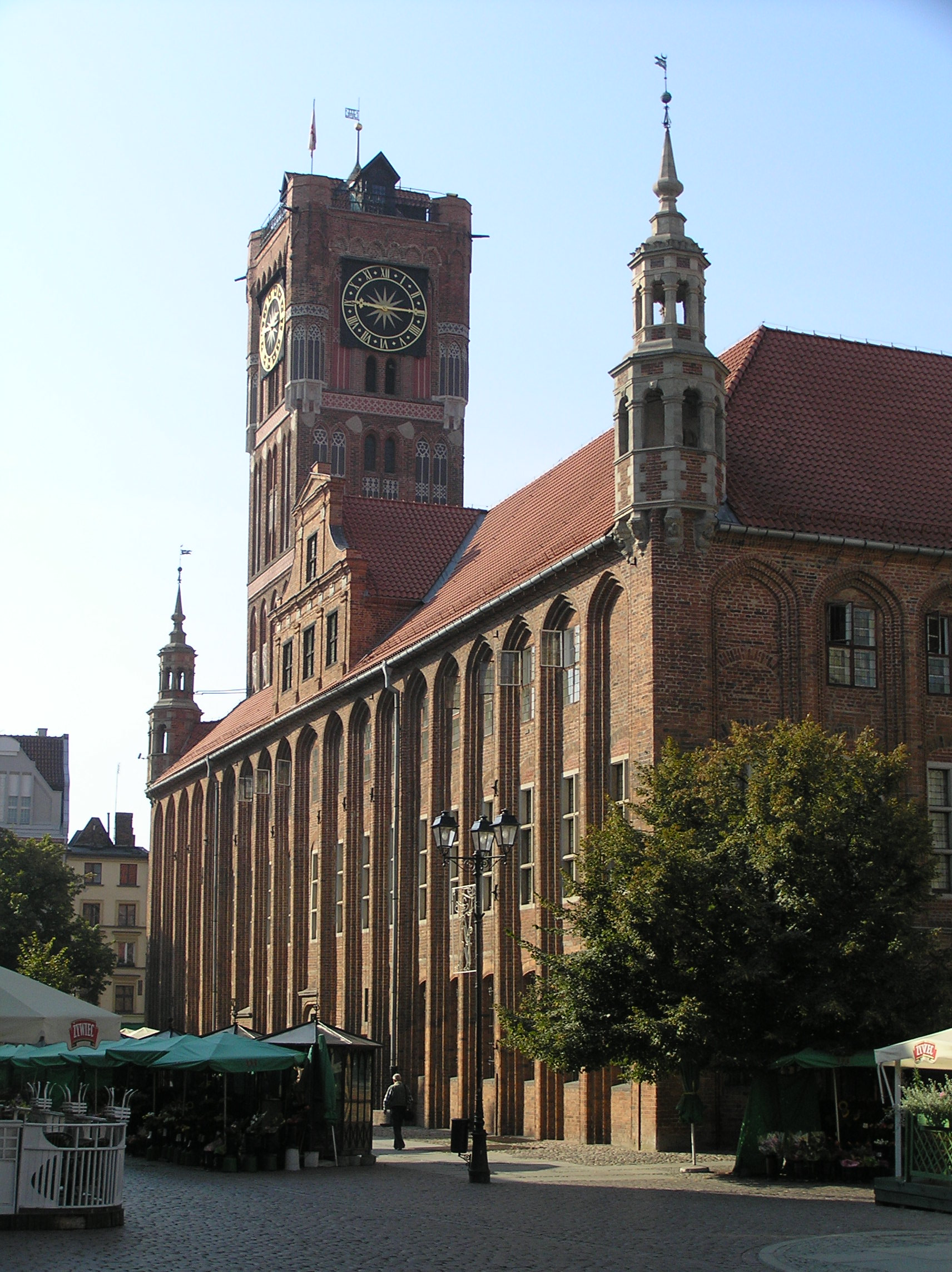 Toruń, Old Town Hall, view from Szewska Str.